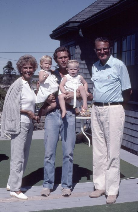 Rev. & Mrs. Billy Graham with George W. Bush and his twin girls at Walker's Point, Kennebunkport, ME, circa 1983